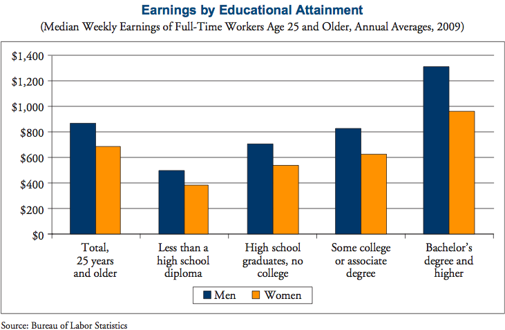 American women's earnings by educational attainment, from Women in America (2011)